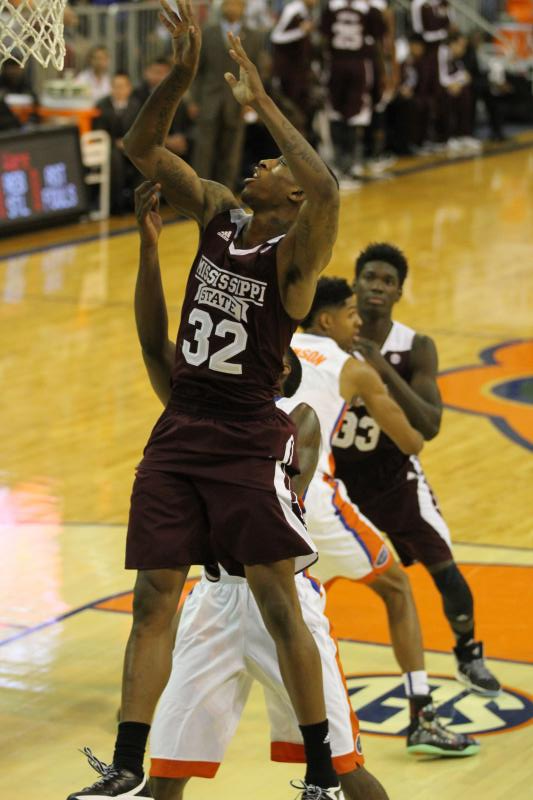 Florida Gators vs Mississippi State Basketball 2015/01/10